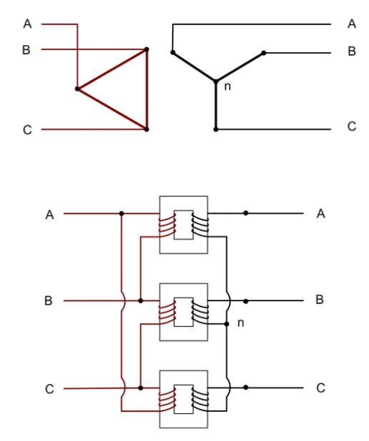 This image presents a delta-wye configuration across a transformer core (although in reality, a useful transformer would have a different number of coils on each side).